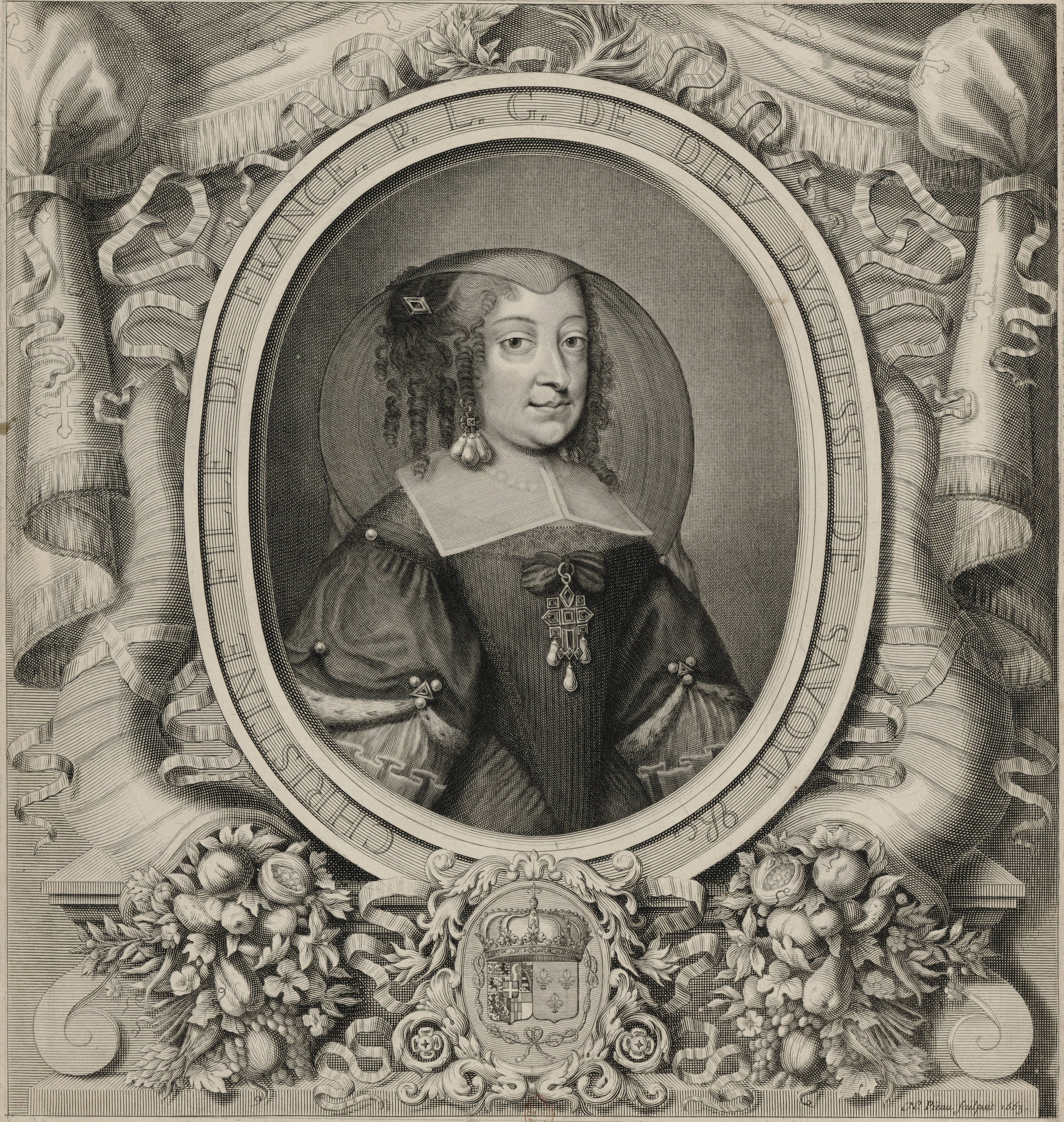 Christine, Daughter of France, By The Grace of God, Duchess of Savoy